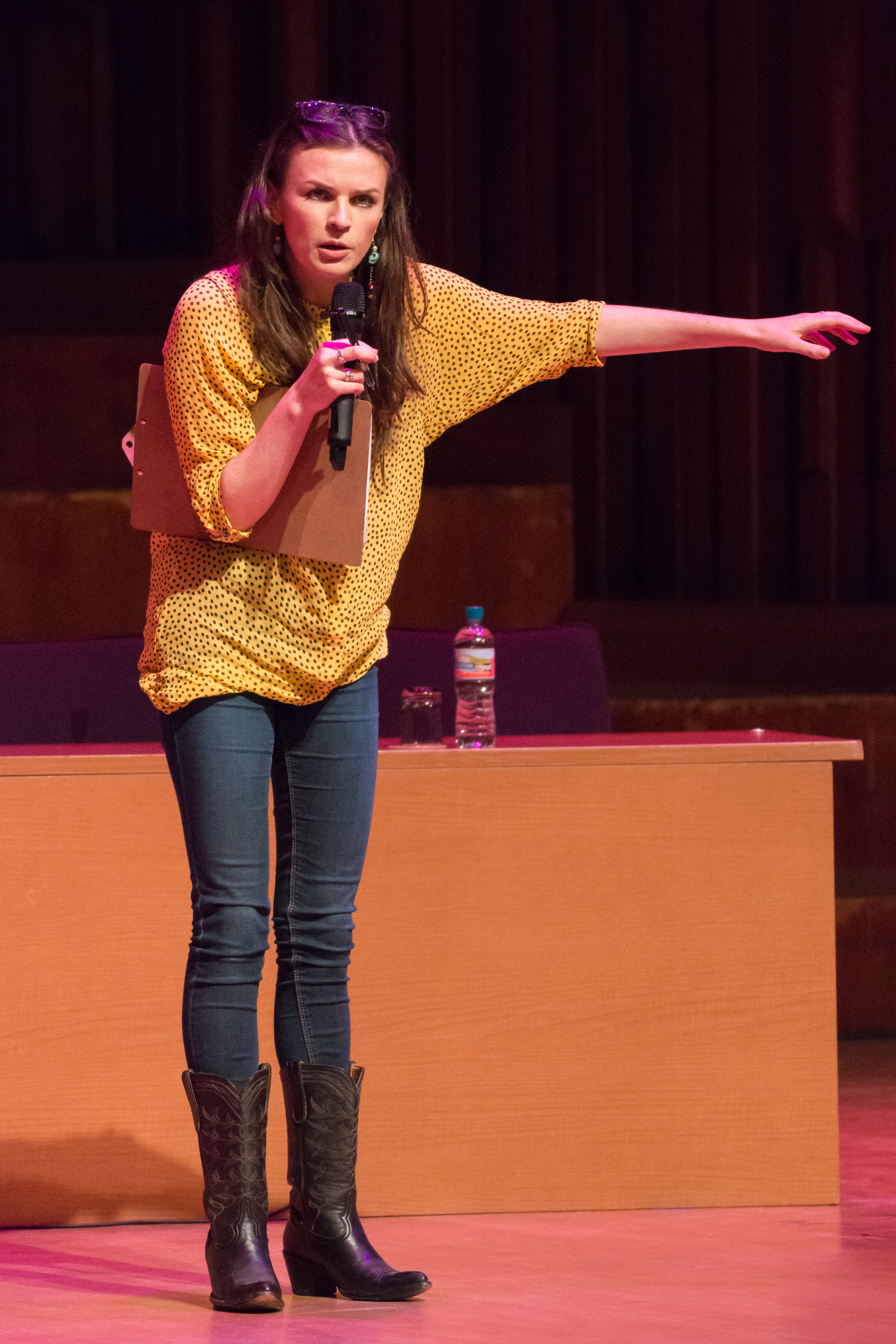 Irish actress, comedian and writer Aisling Bea at the Barbican Centre during the Wikimania 2014